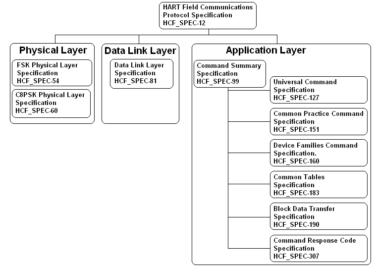 HART 6 standards relations